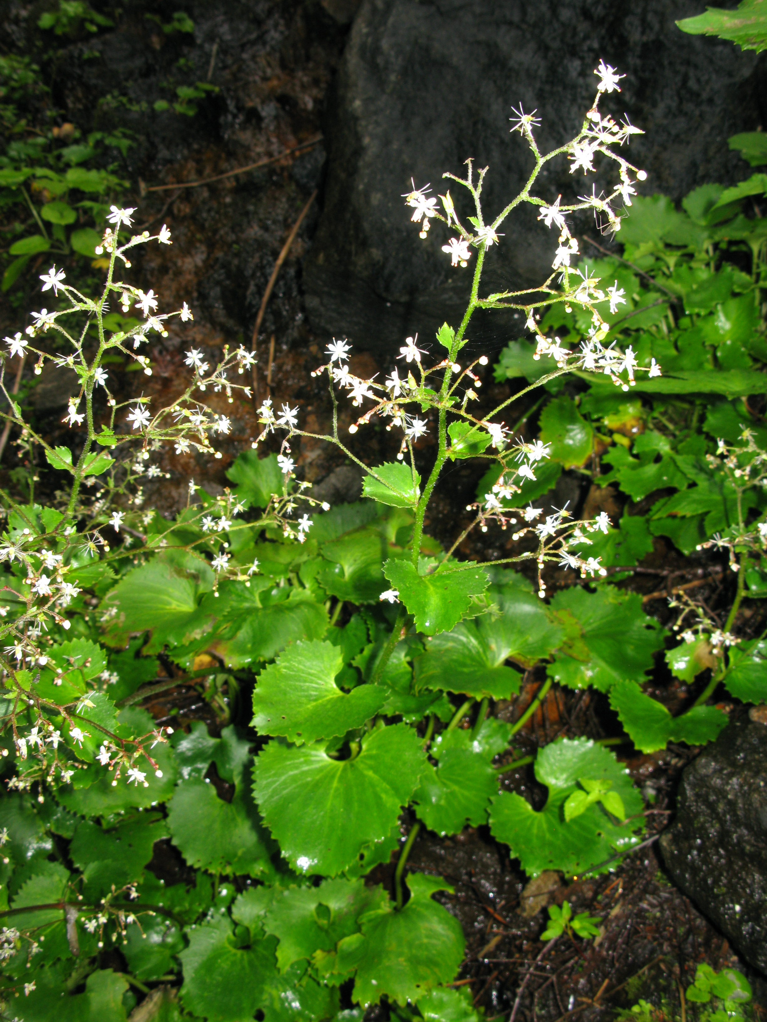 Micranthes japonica, Mount Azuma, Fukushima pref., Japan